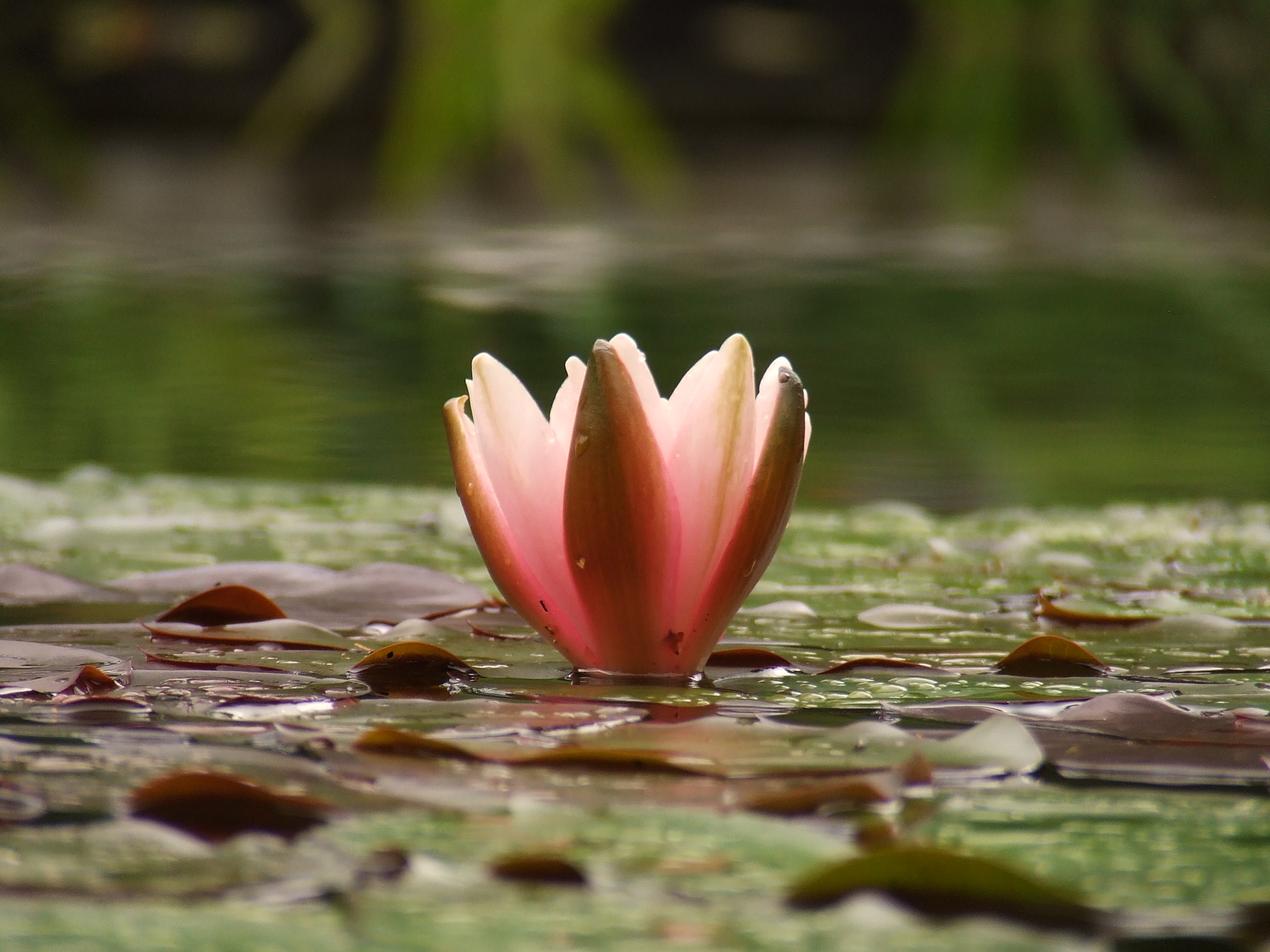 Nymphaea alba at the botanic garden, Gödöllő, Hungary